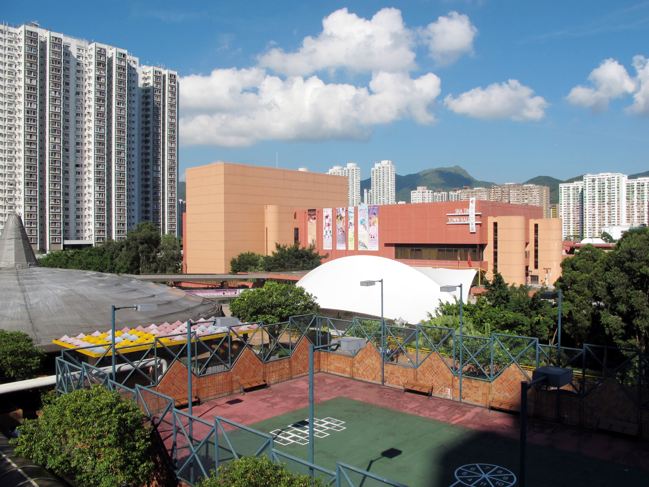 Shatin Town Hall